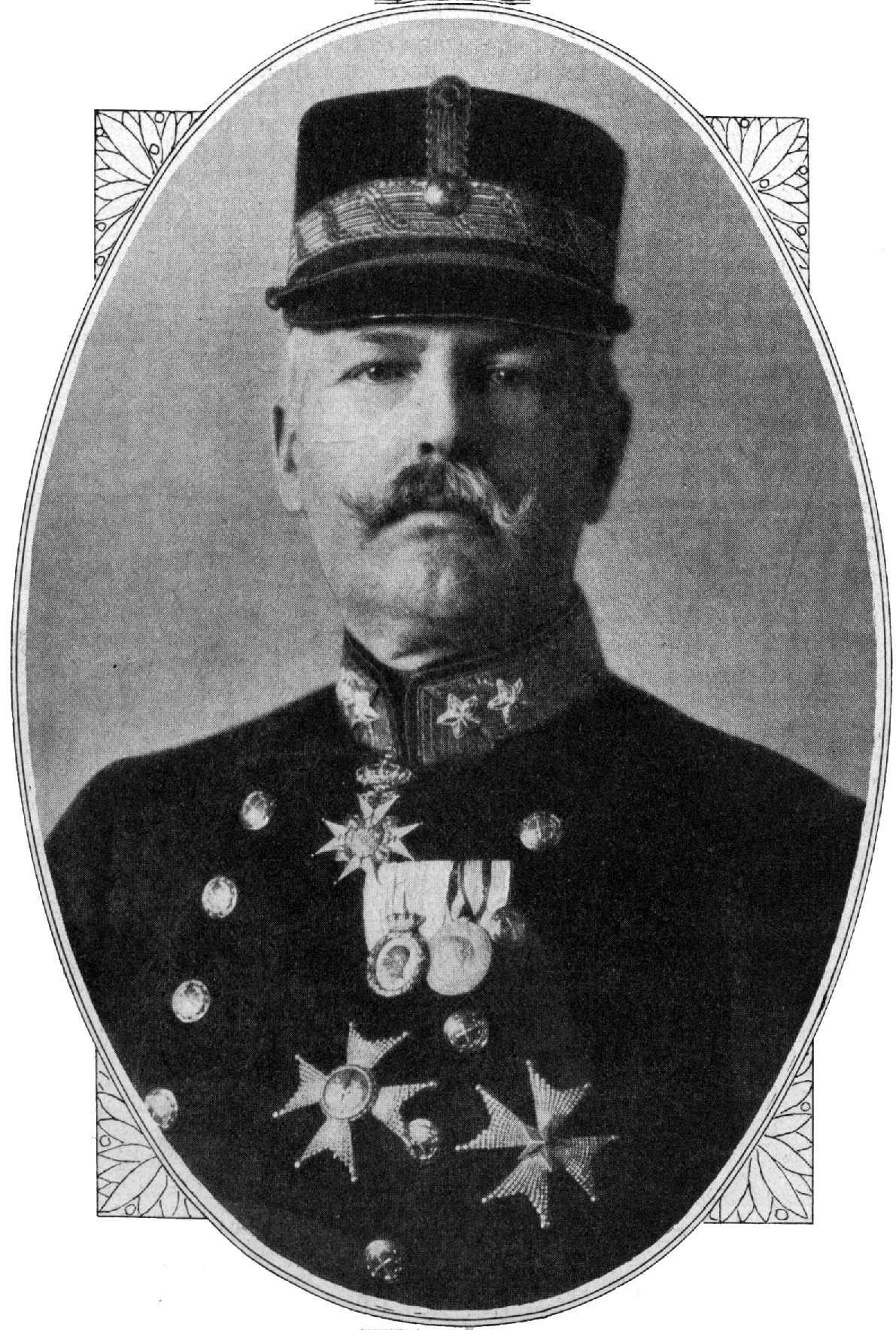 Knut Gillis Bildt (1854-1927), Swedish nobleman, general, politician and diplomat.